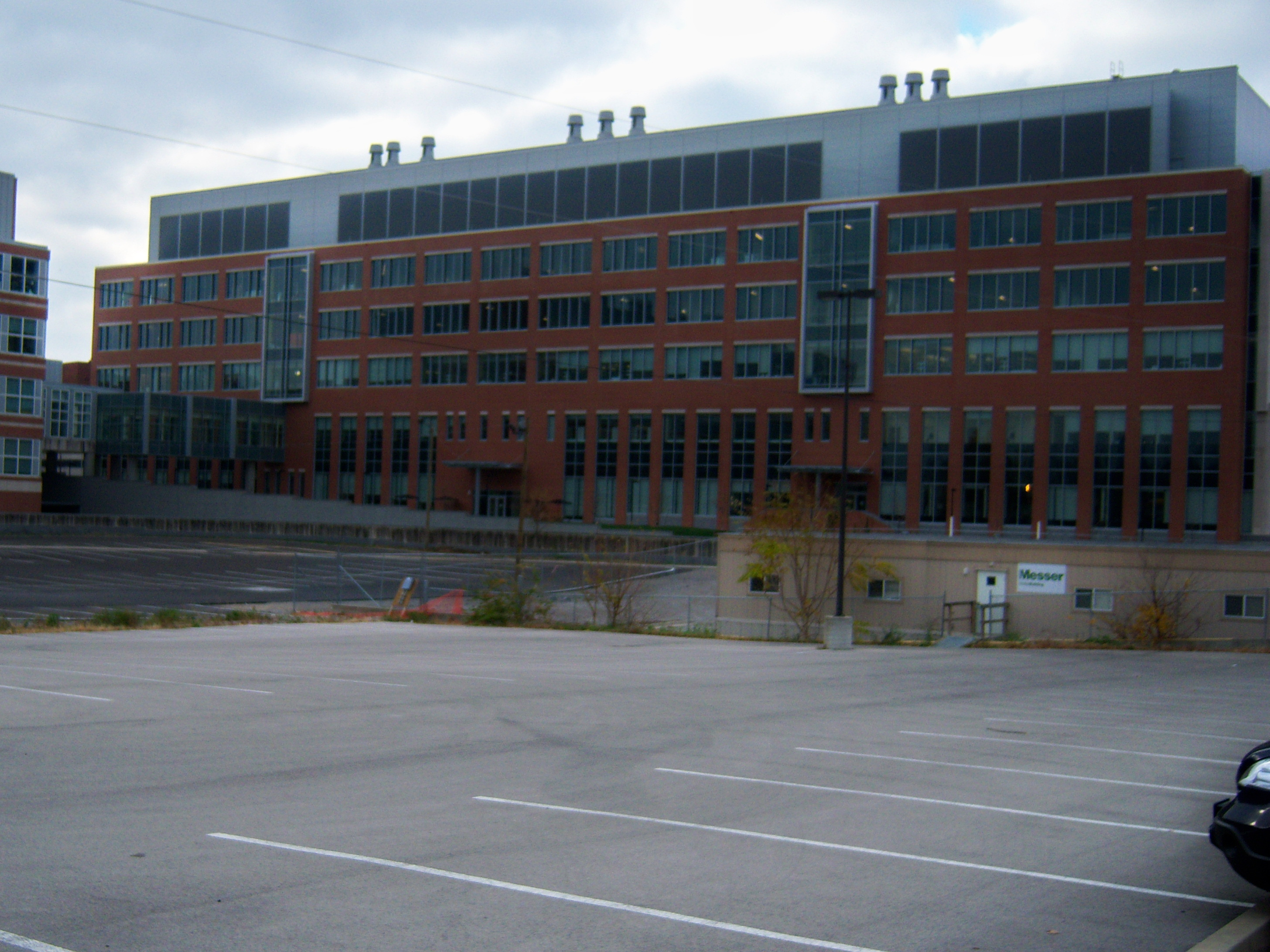 The Biological-Pharmaceutical Building, the world's largest pharmacy building, at the University of Kentucky.